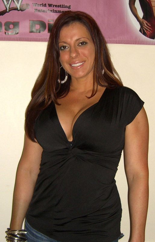 Professional wrestler Dawn Marie Psaltis at the Big Apple Convention in Manhattan, May 21, 2011. Photographed by Luigi Novi. This photo is not in the public domain. It may, however, be used, modified and published for any purpose, free of charge, only if the photographer is properly credited, either by linking the photograph to this page, or with an easily visible credit to the photographer placed near the photo in each instance in which it is used. (See licensing information below.) Publication of this photo without this proper attribution constitutes copyright infringement. If you have any questions, you can contact me on my Wikipedia Talk Page.